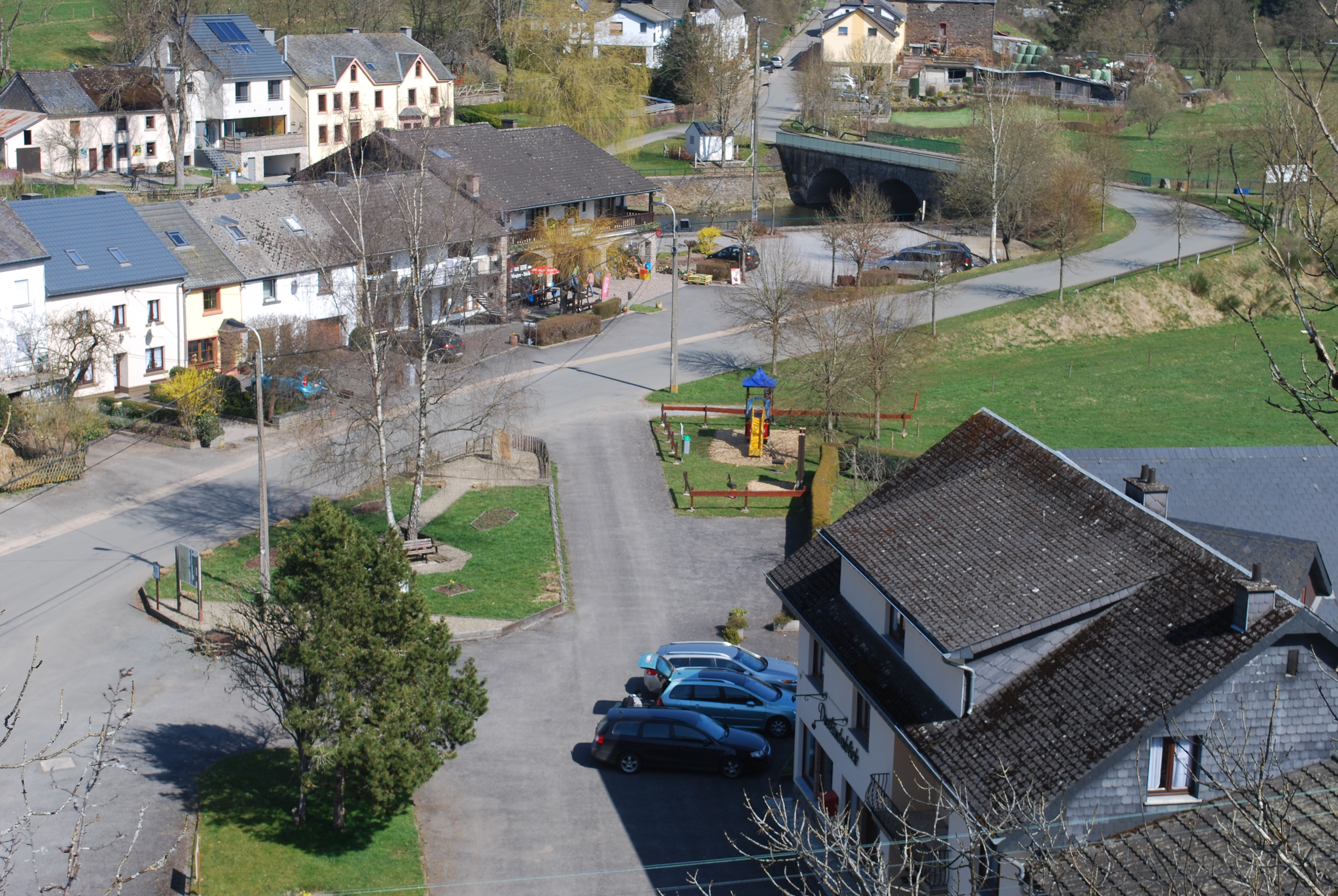 Ouren, Village square